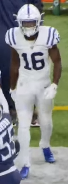 Ashton Dulin 2019. Image from video Logan Ryan Mic'd Up vs. Colts (Week 13) | Tennessee Titans, ~ 02:29.